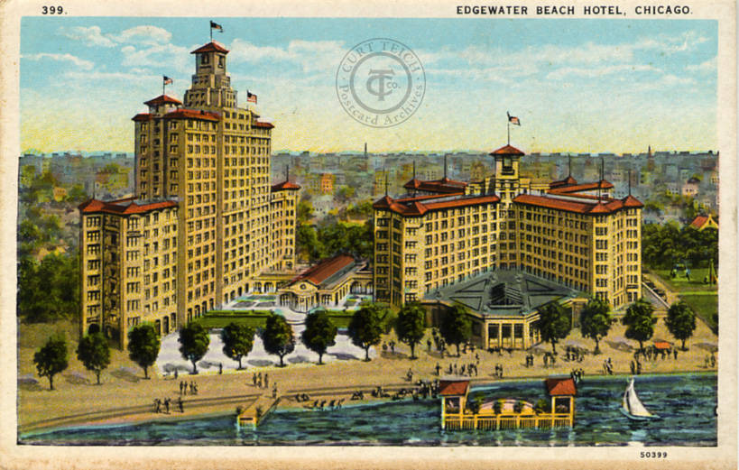 399, Edgewater Beach Hotel, Chicago